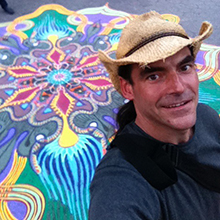 Joe Mangrum in front of sand painting in Union Square NYC. July 12, 2011